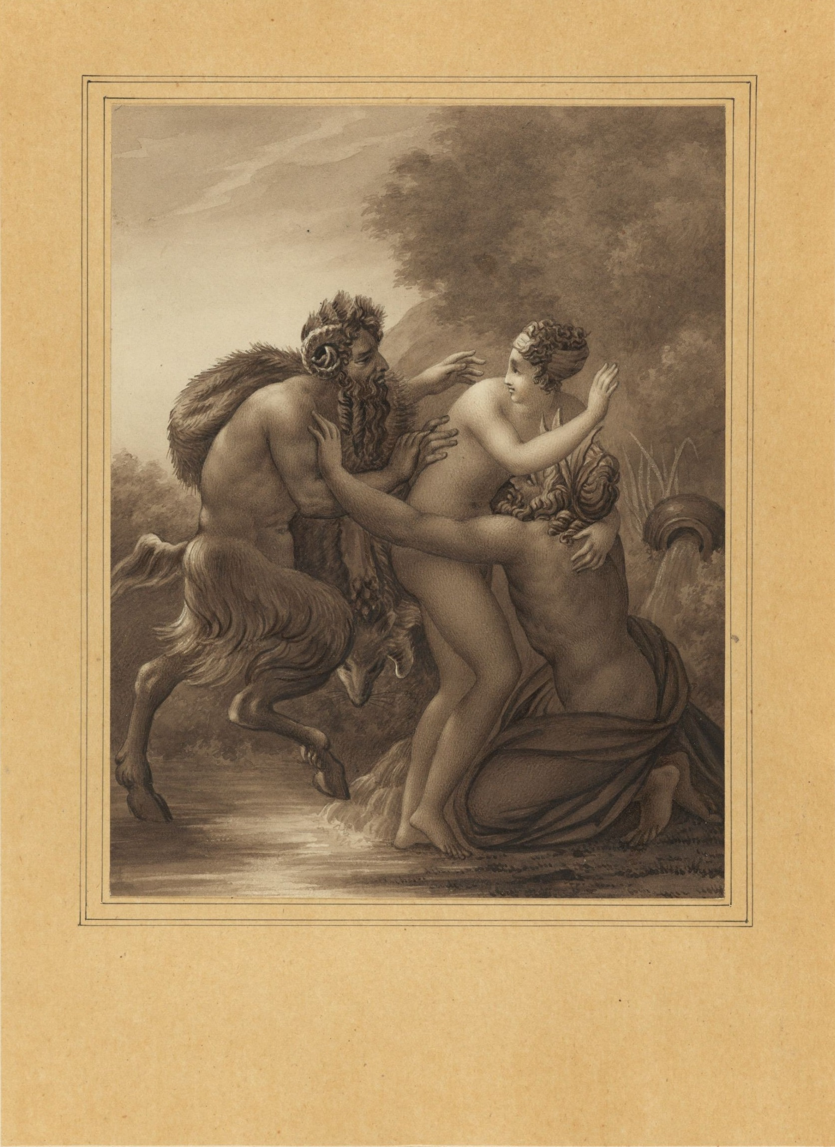 "Pan poursuivant Syrinx", wash drawing by Anne-Louise Girodet-Trioson, from Les Amours Des Dieux, 1826. *54C-508, Houghton Library, Harvard University